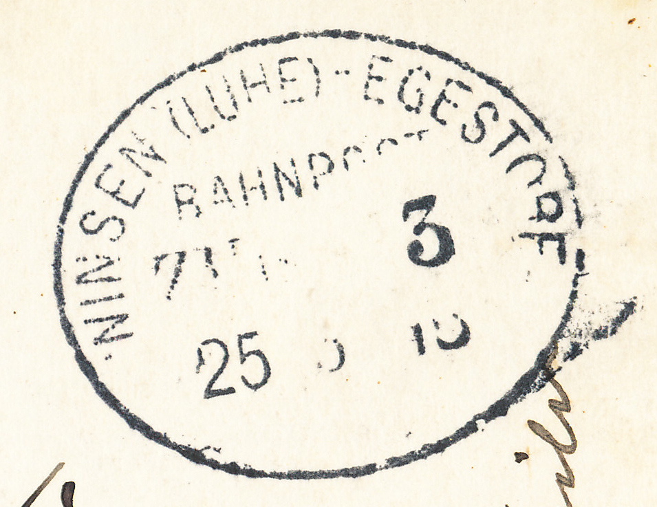 Postmark of railway post office